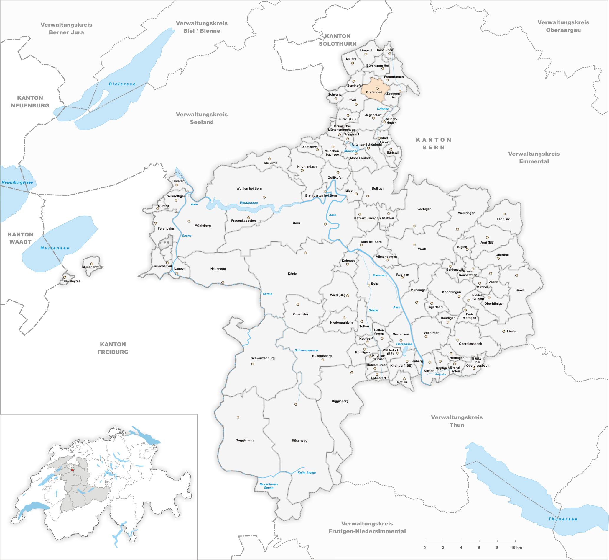 Municipality Grafenried